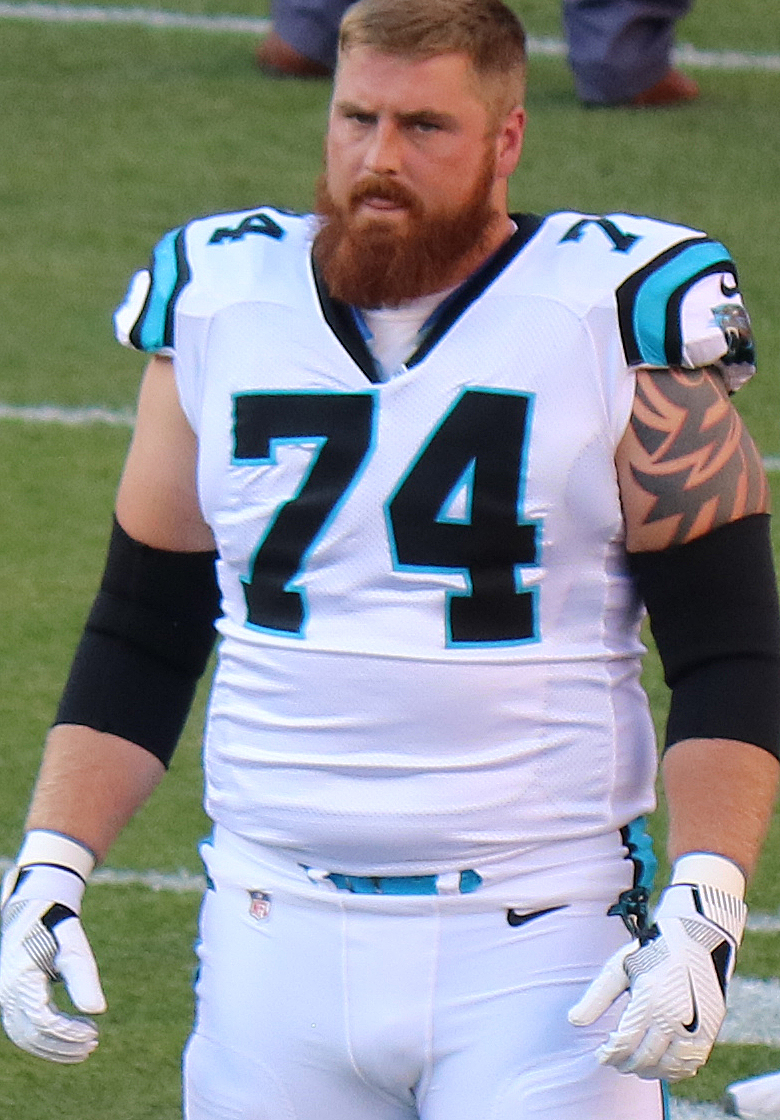 Mike Remmers, a player on the National Football League.